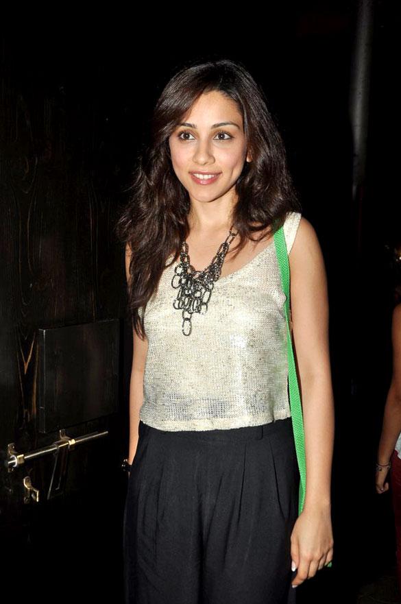 Forest success party